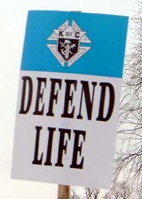 A Knights of Columbus sign at the March For Life.